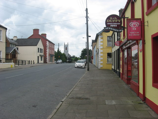 Shercock, Co. Cavan Looking up the main street towards the Church of Ireland.